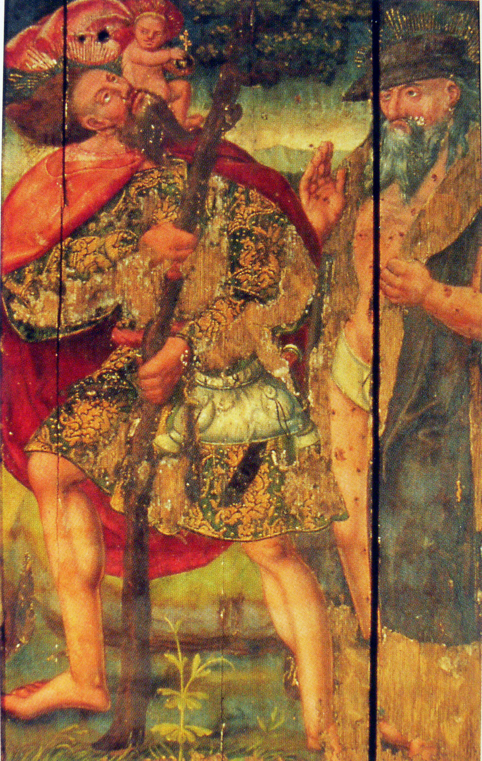 St. Christopherus and St. Rochusaltar painting